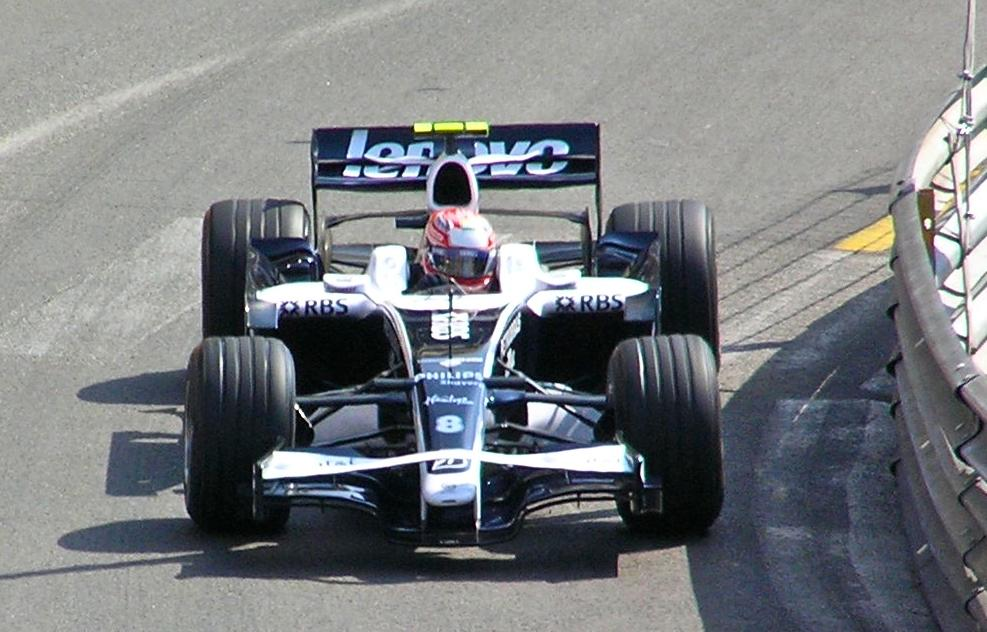 Kazuki Nakajima driving for WilliamsF1 at the 2008 Monaco Grand Prix.